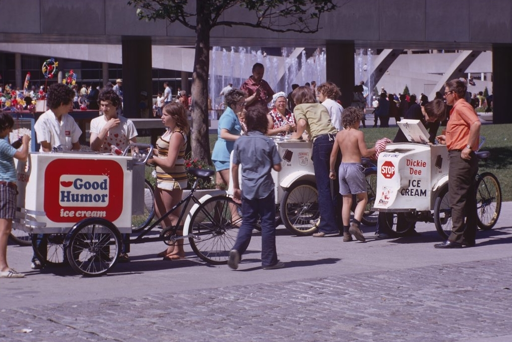 Photographer: Harvey Naylor 1984 City of Toronto Archives This image is available from the City of Toronto Archives, listed under the archival citation Fonds 1526, File 11, Item 23. This tag does not indicate the copyright status of the attached work. A normal copyright tag is still required. See Commons:Licensing for more information.